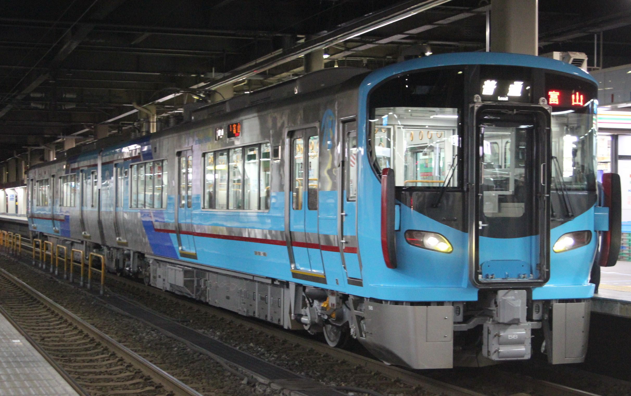 IR Ishikawa Railway 521 series EMU set 56 at Kanazawa Station on an all-stations "Local" service to Toyama